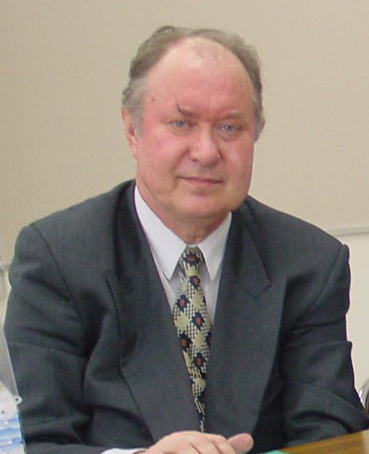 Boris N. Slavinsky on International Conference in Tokio. 2001.